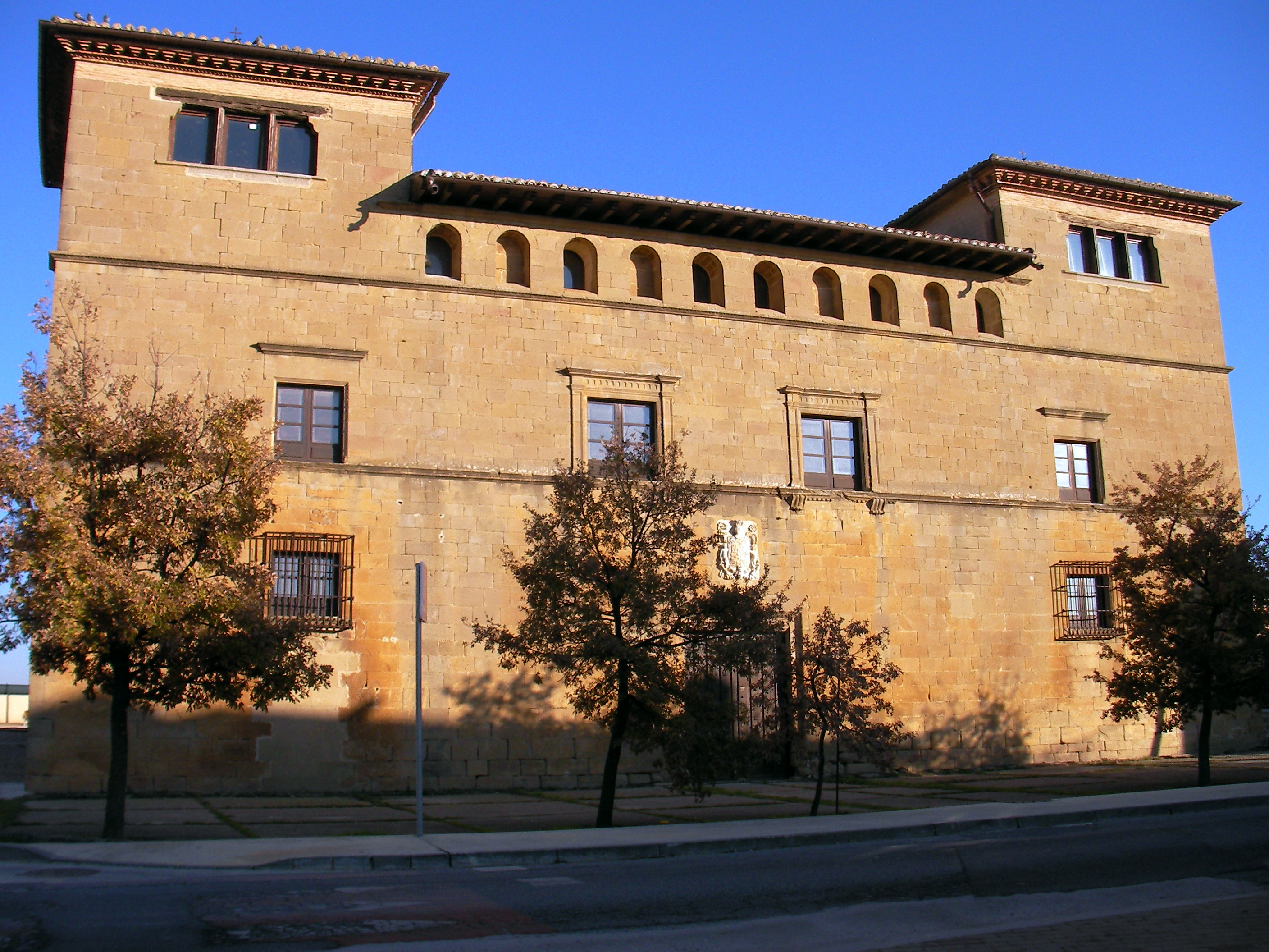 Birth house of Martín de Azpilicueta in Barásoain, Navarre.